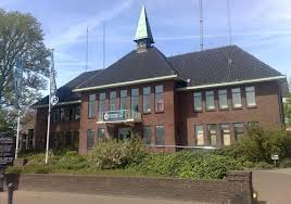 Studiobuilding Omroep Zeeland regional broadcast station in Oost-Souburg, Vlissingen, Netherlands